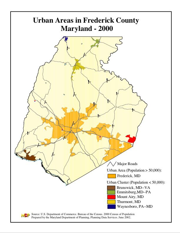 Map of urban areas in Frederick County, Maryland, from the U.S. Census Bureau